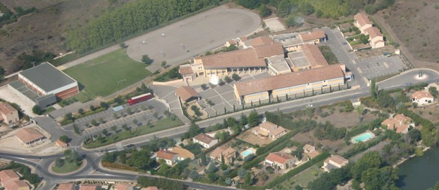 bird view of the Coustellet school and sport equipment, France